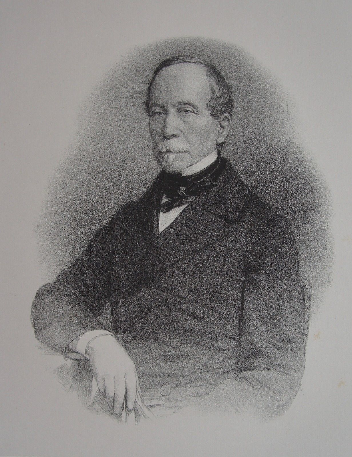 Nicolas Anne Théodule Changarnier (1793-1877)